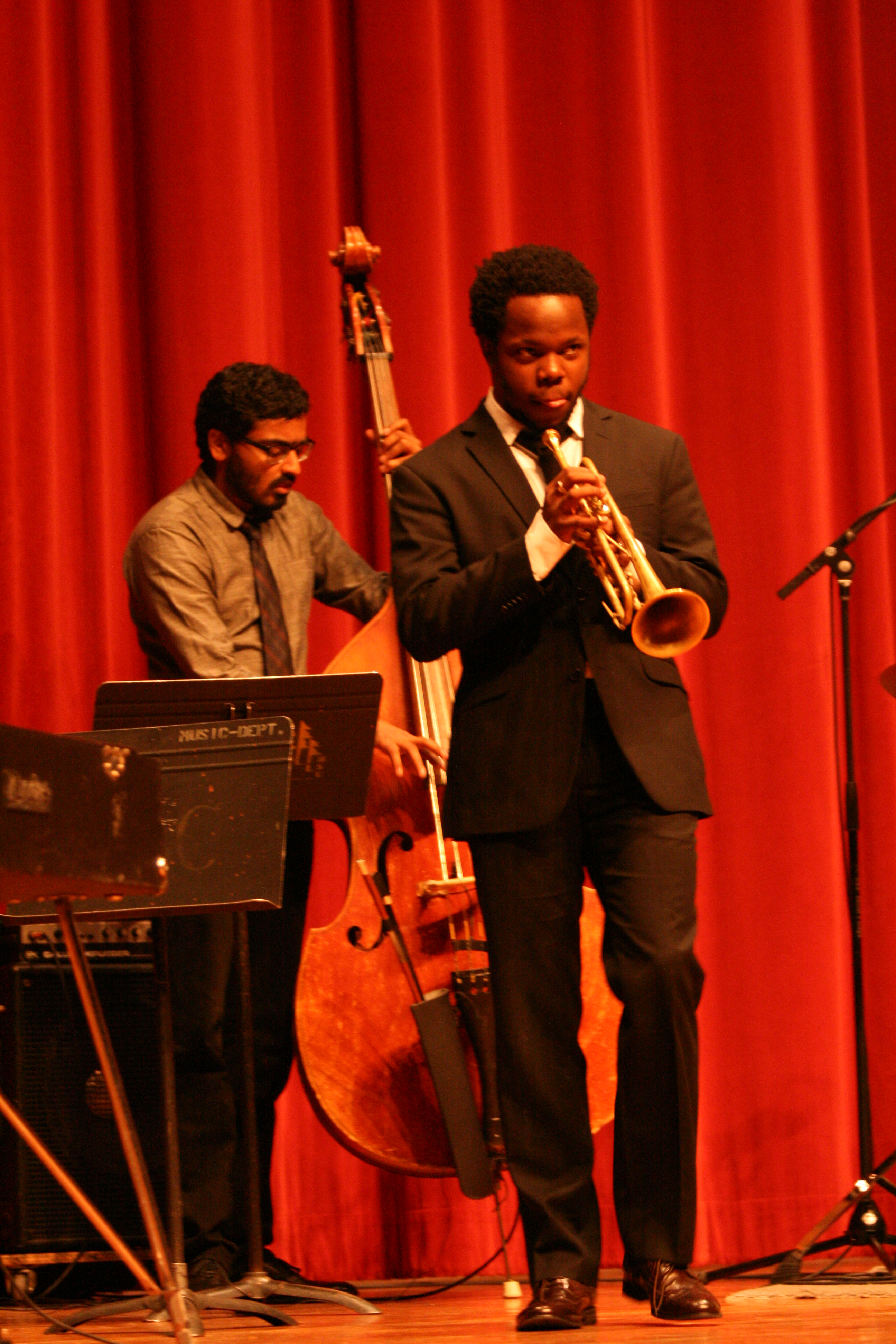 Ambrose Akinmusire performing in April 2011.